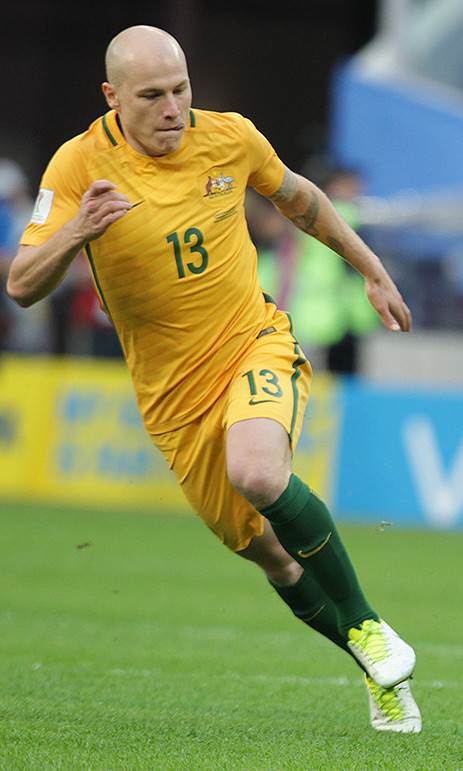 Cameroon vs Australia (1-1). FIFA Confederations Cup 2017